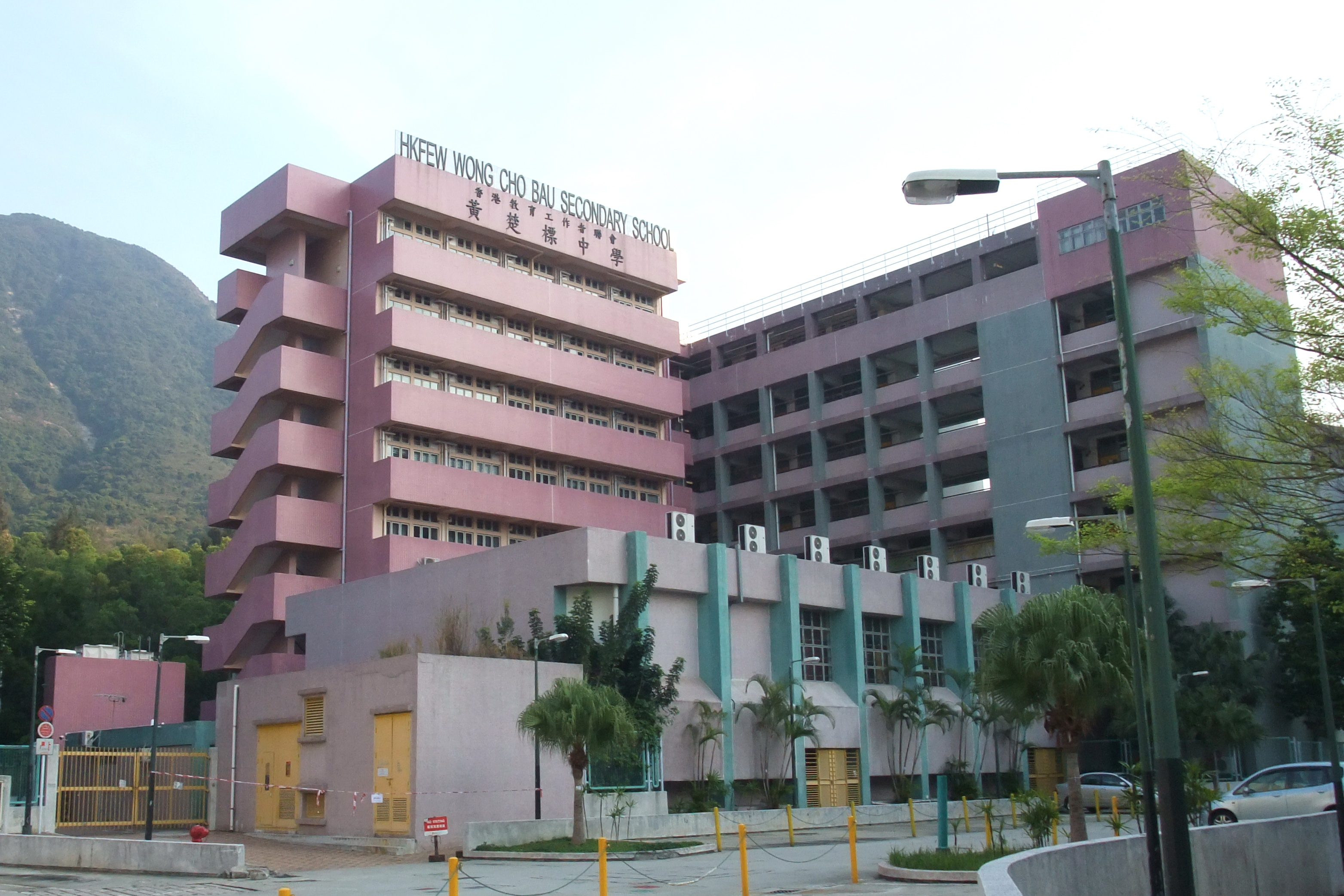 Hong Kong Federation of Education Workers (HKFEW) Wong Cho Bau Secondary School, Tung Chung, New Territories, Hong Kong.